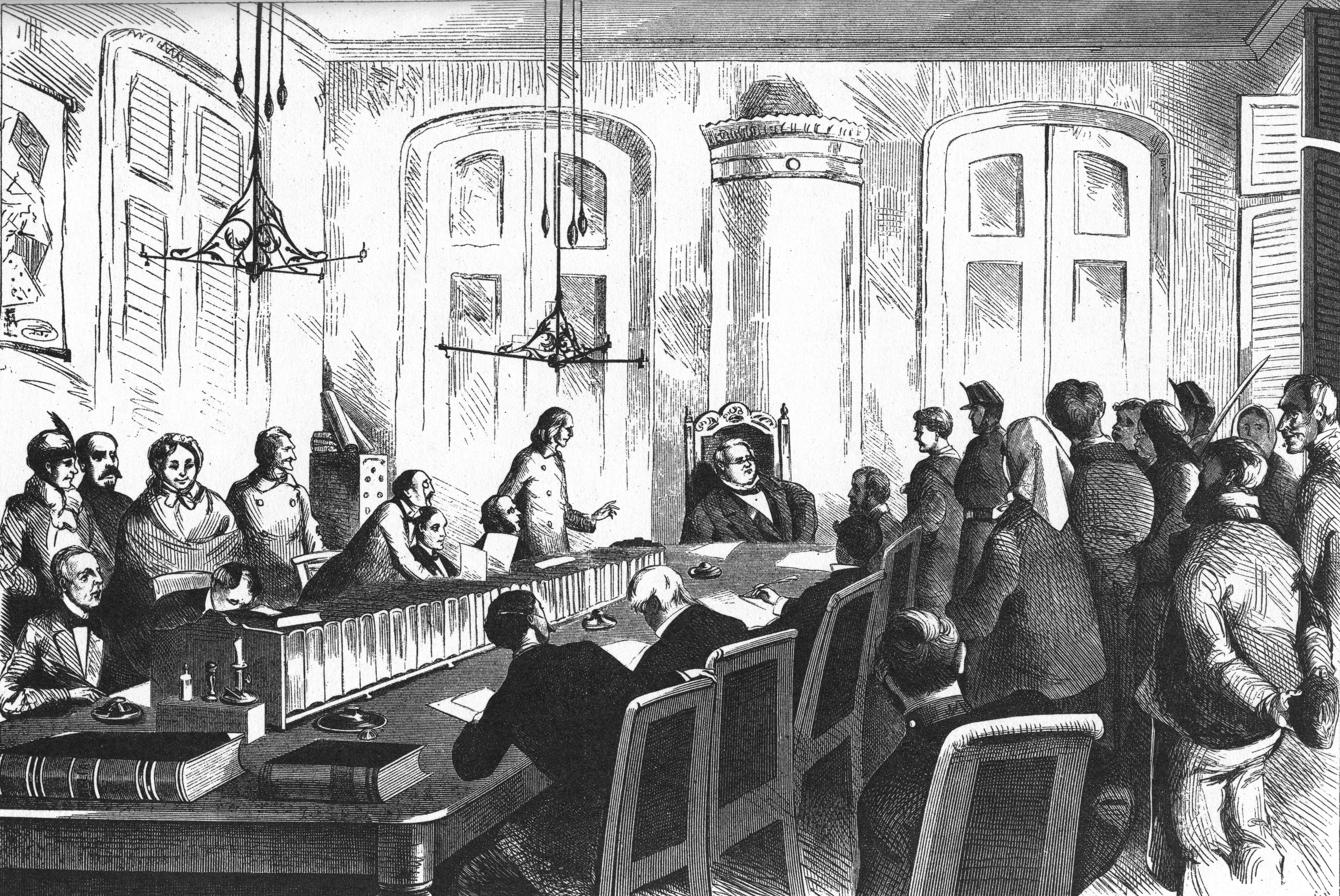 A session at Stockholm city court. Wood-engraving by John Beer, published in Ny illustrerad tidning in 1877.